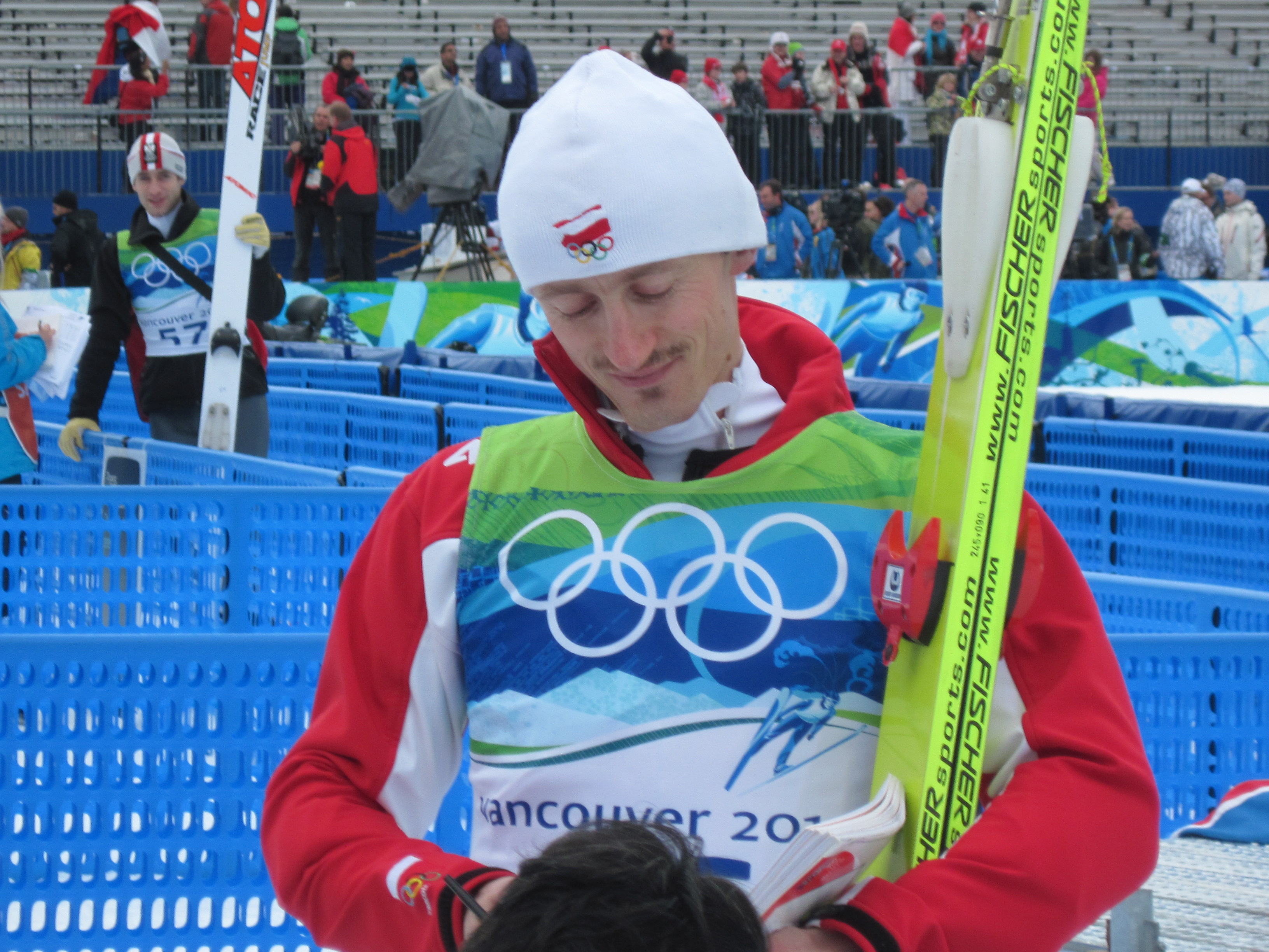 Whistler Olympic Park in Callaghan Valley, British Columbia, Canada.